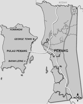 from wikipedia Appears to be from Image:Penang State Map.jpg. —Bkell (talk) 03:25, 28 June 2006 (UTC)